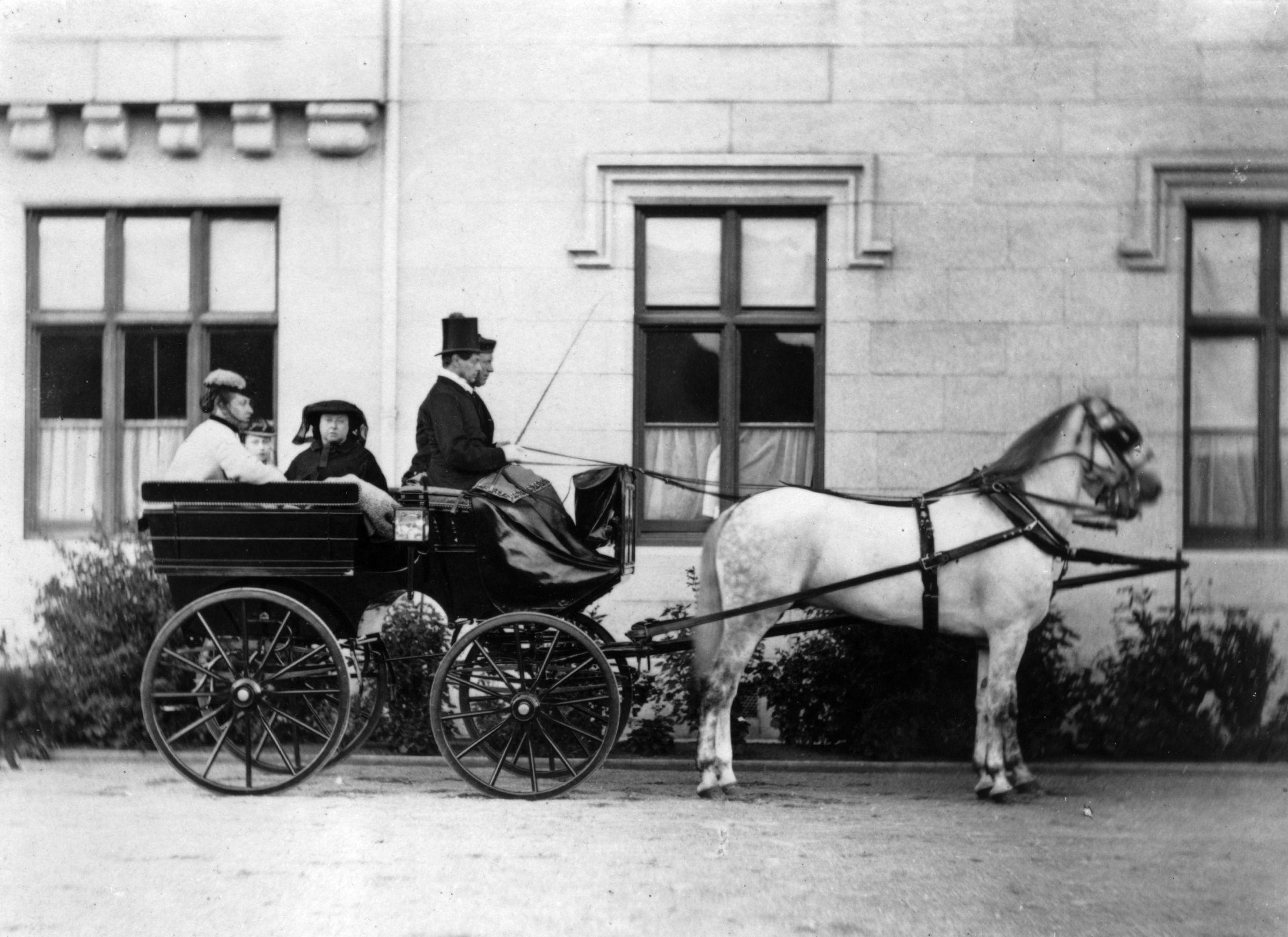 Princess Louise Caroline Alberta, Duchess of Argyll, Princess Beatrice of Battenberg and Queen Victoria driving, by Henry Joseph Whitlock (died 1923). All images in this batch have been confirmed as author died before 1939 according to the official death date listed by the NPG.